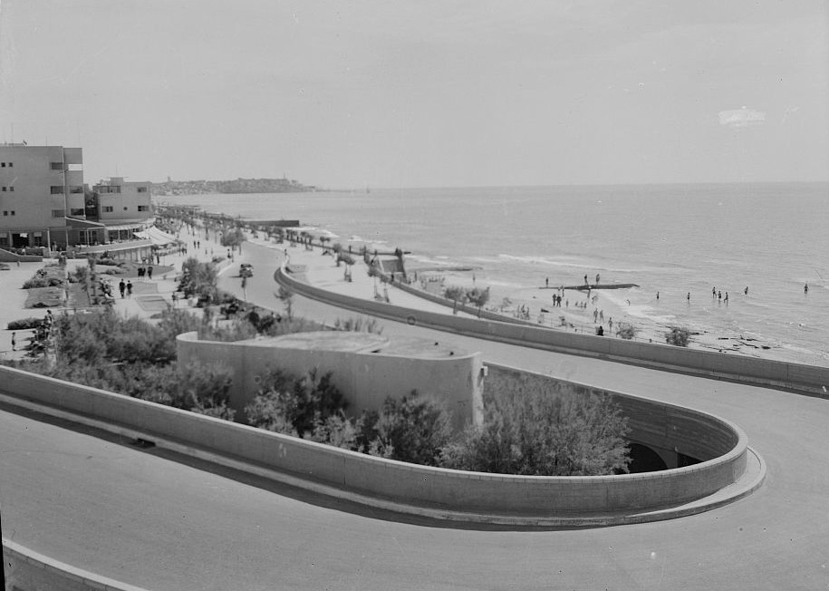 London Square, Tel Aviv. Black and white photo from 1941.